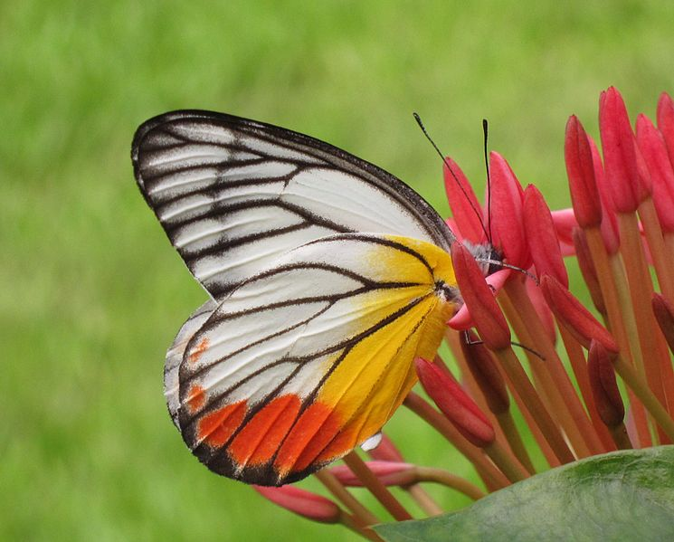 Delias hyparete metarete (Painted Jezebel) - male